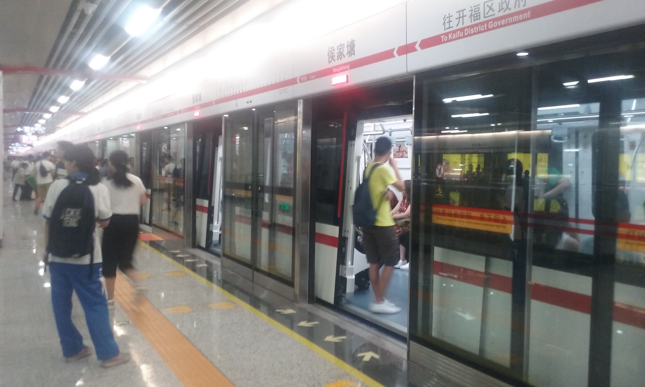 Northbound train of Line 1 in Houjiatang Station